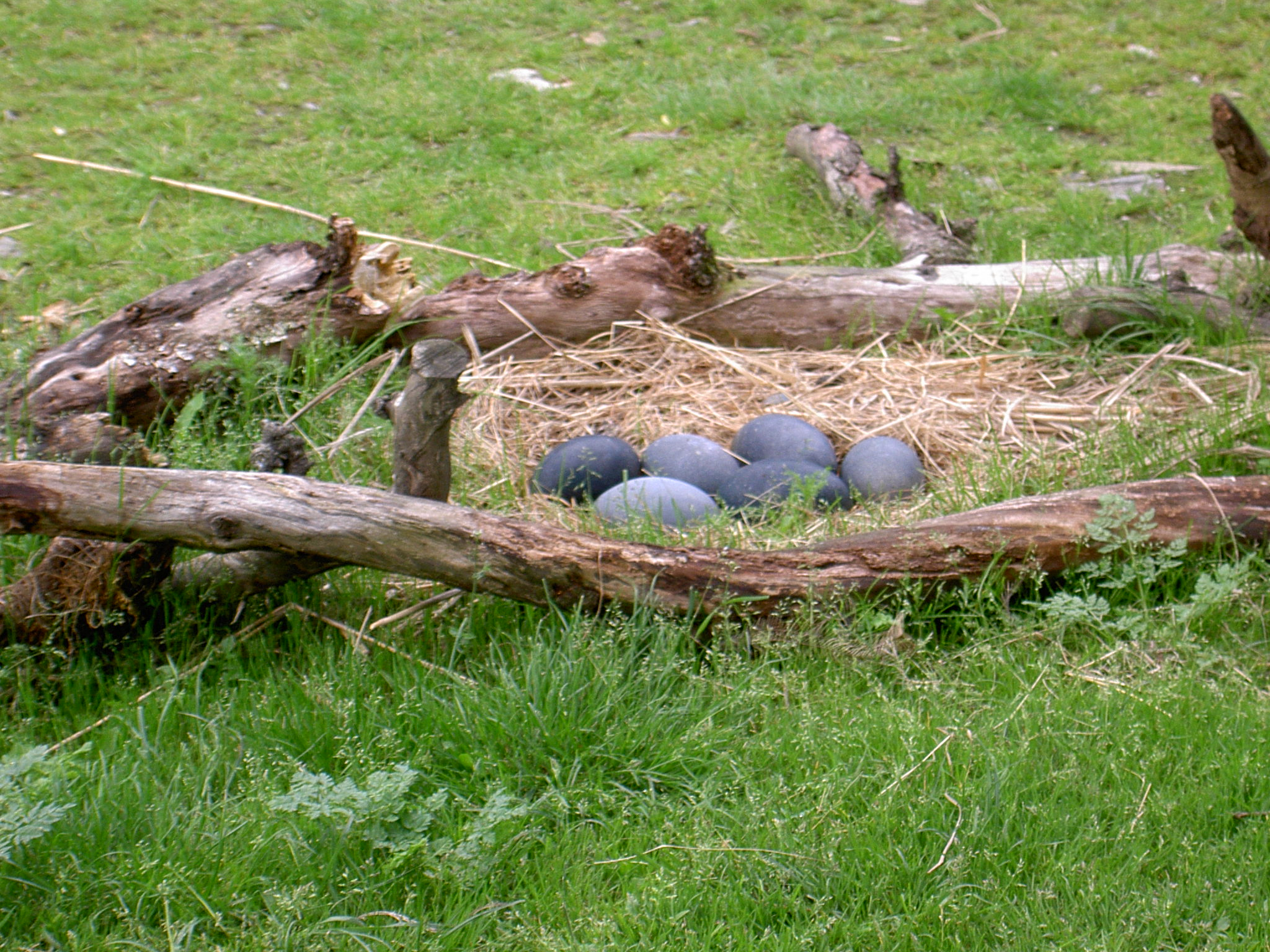 Emu's nest.